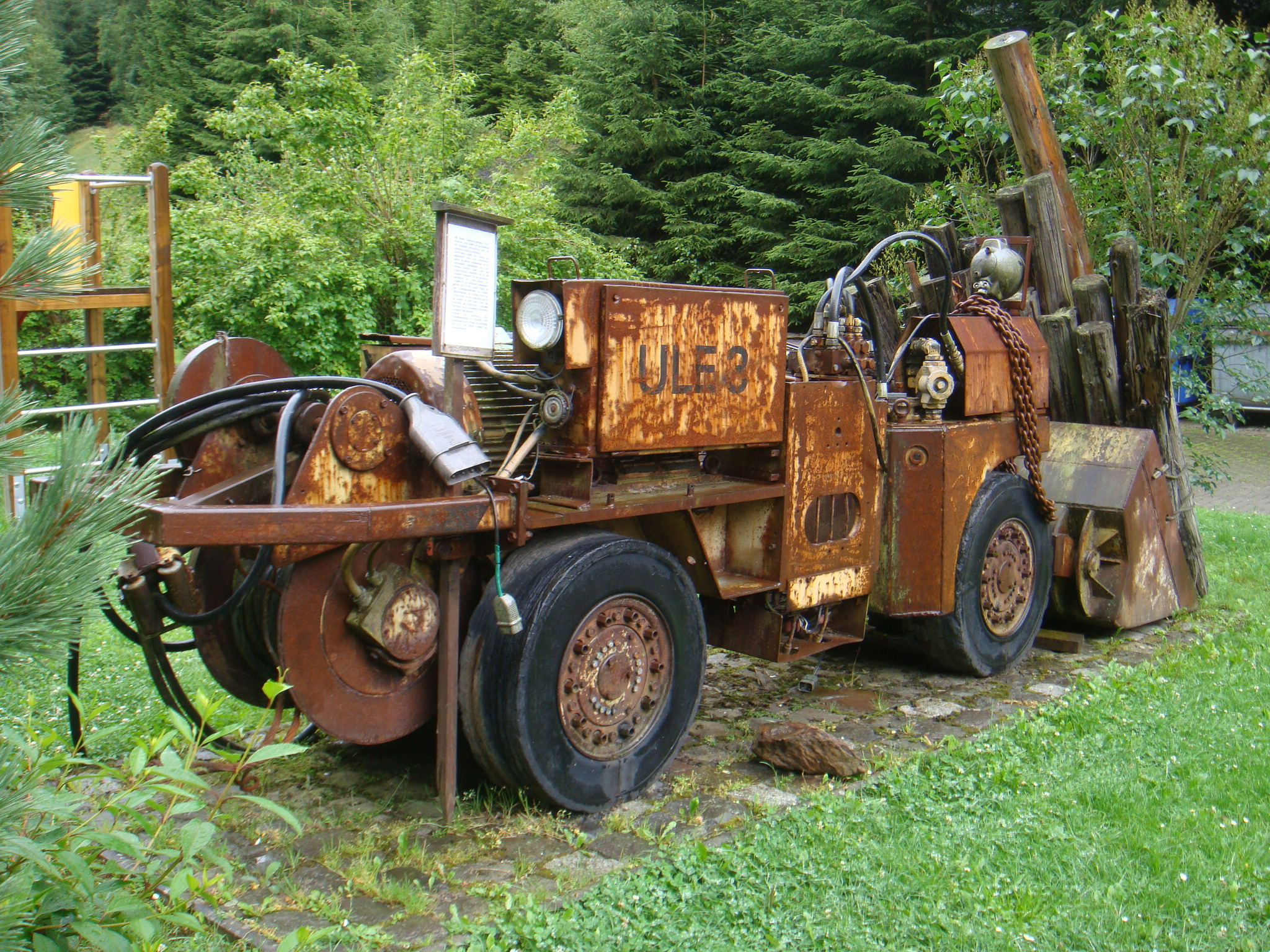 Electrical powered LHD mining loader ULE 3 (Universal Loader Electric No. 3) at the Morassina mine in Schmiedefeld, Thuringia, Germany.